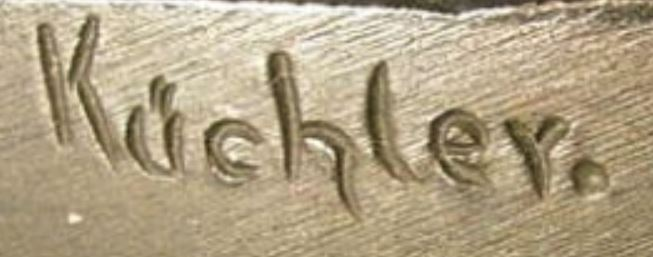 Signature of Austrian sculptor Rudolf Küchler, 1867-1954